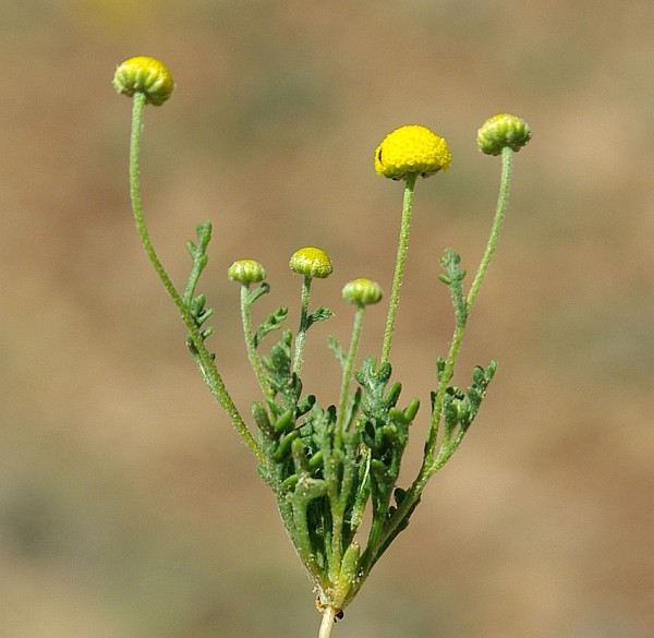 Cancrinia discoidea (Ledeb.) Poljakov in Kazakhstan